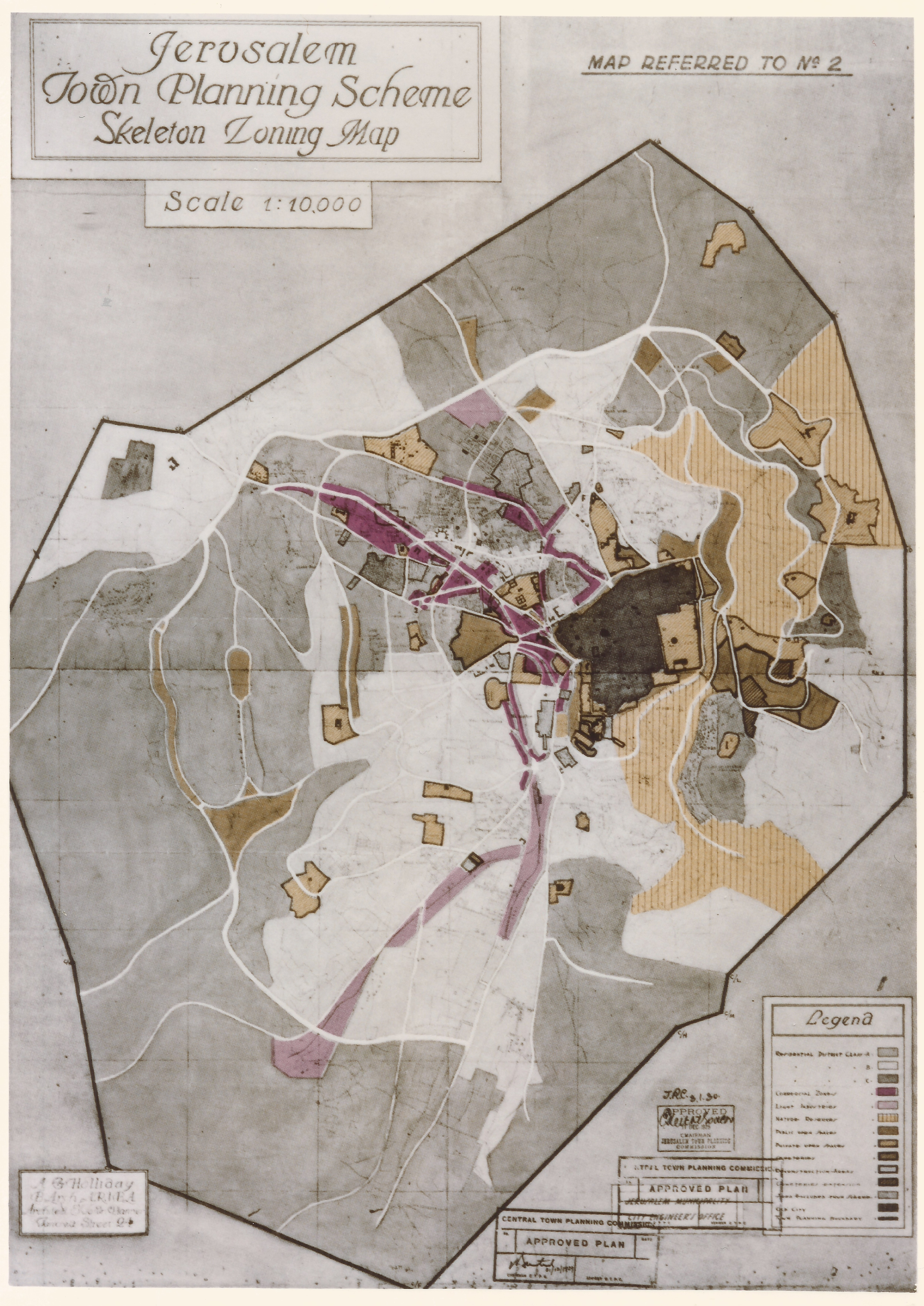 Plan published in 1930 by the British architect Clifford Holliday for Jerusalem. Work on the plan started in 1926. The plan included for the first time a ring road around the city and detailed zoning schema for the full city boundary